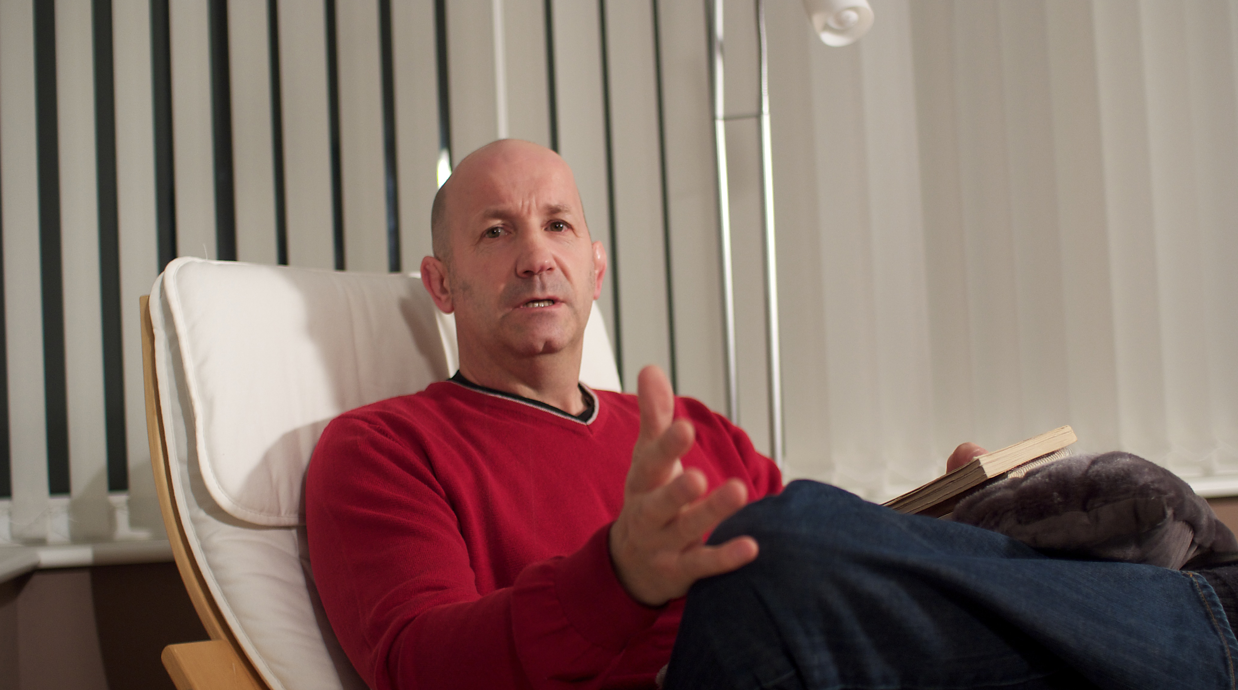 Geoff Thompson being interviewed